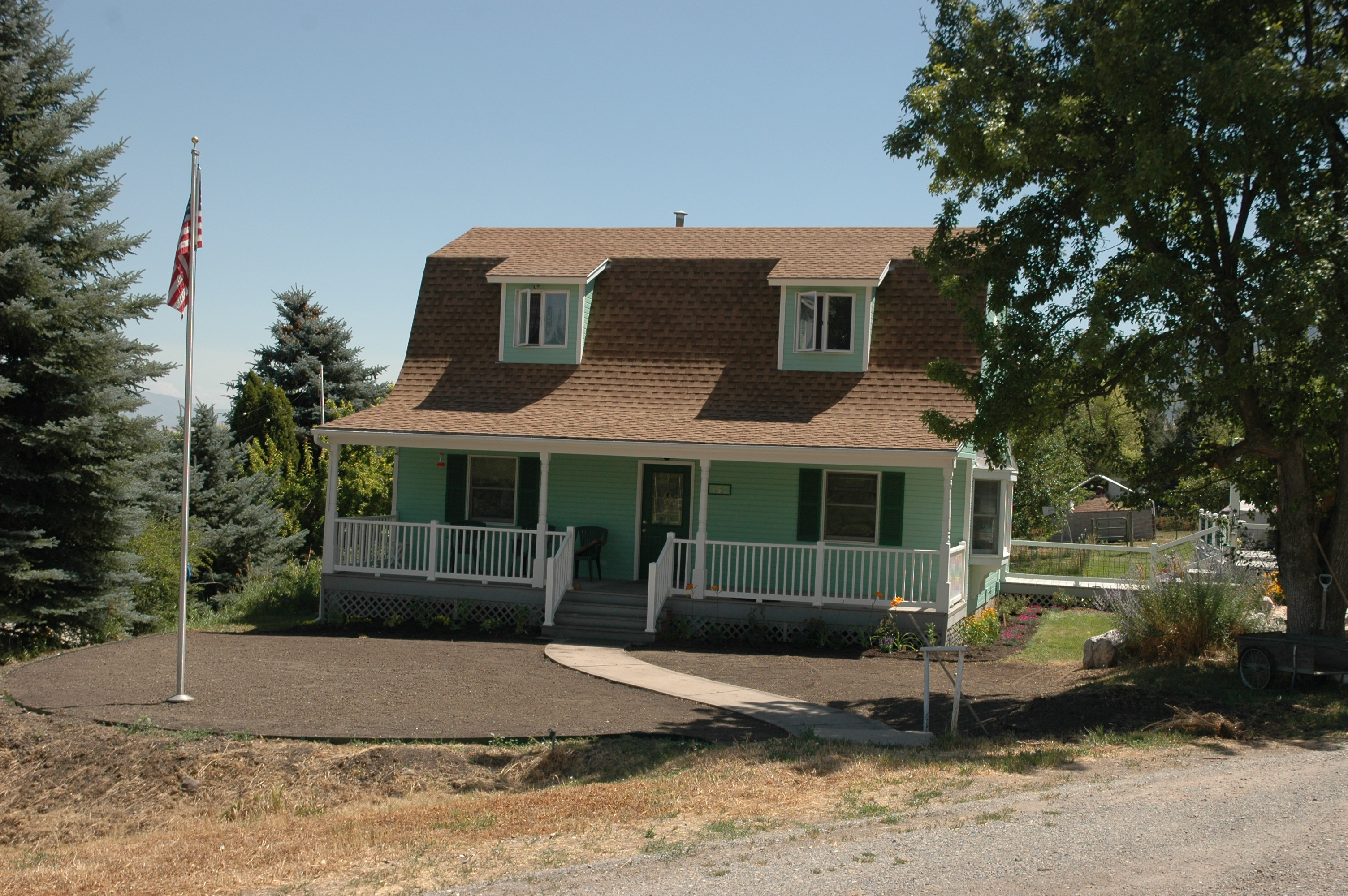 The Samuel Baker House, a historic home in Mendon, Utah, United States.